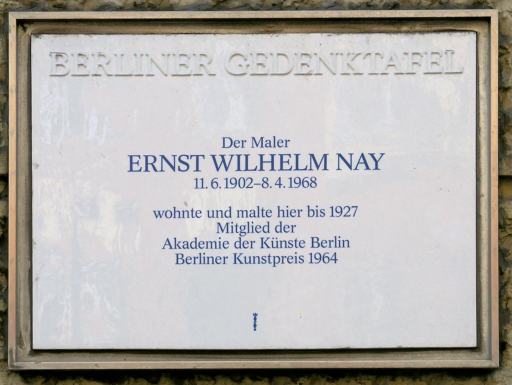 Berlin memorial plaque, Ernst Wilhelm Nay, Klingsorstraße 21, Berlin-Steglitz, Germany